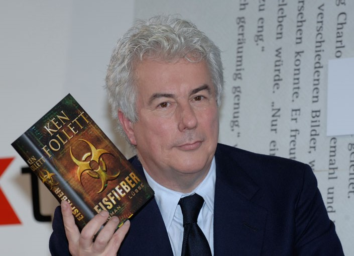 Ken Follett with his book Eisfieber (English "Whiteout")